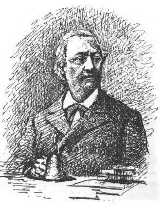 Portrait of the Occitan writer Sextius Michel